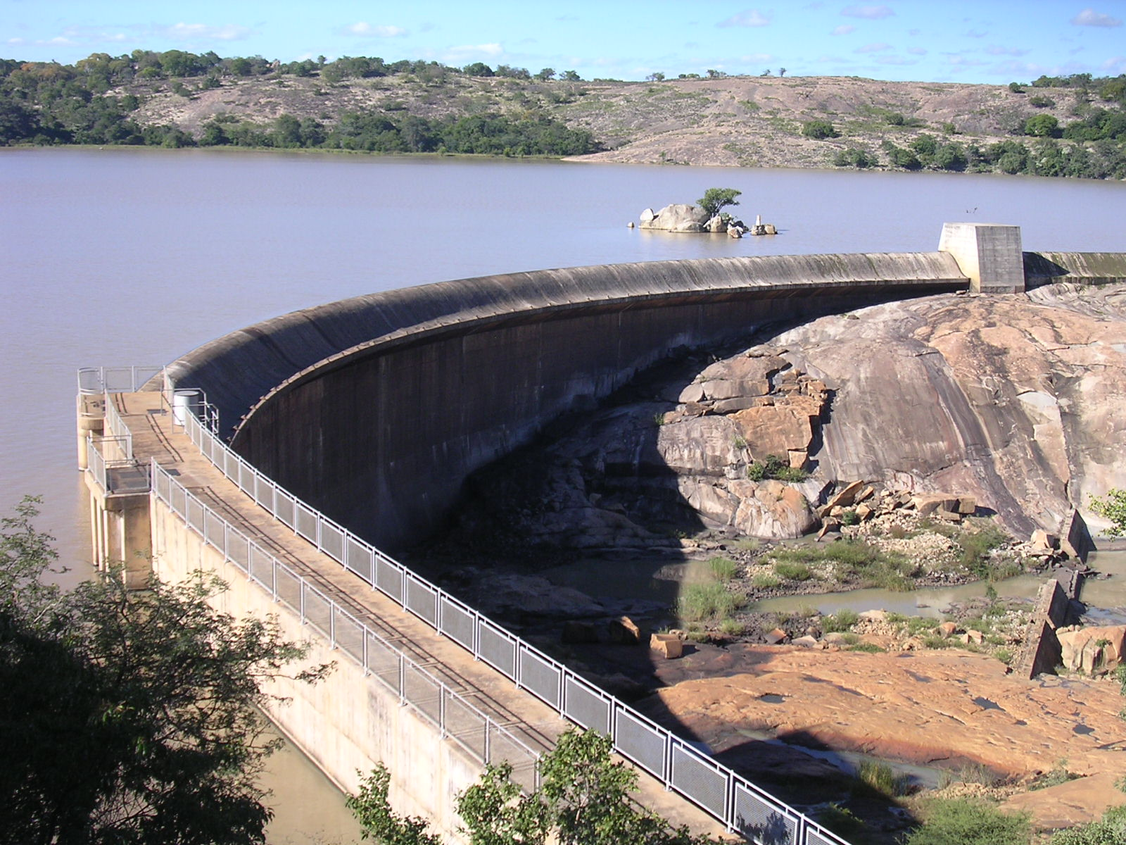 Silalabuhwa Dam, Zimbabwe